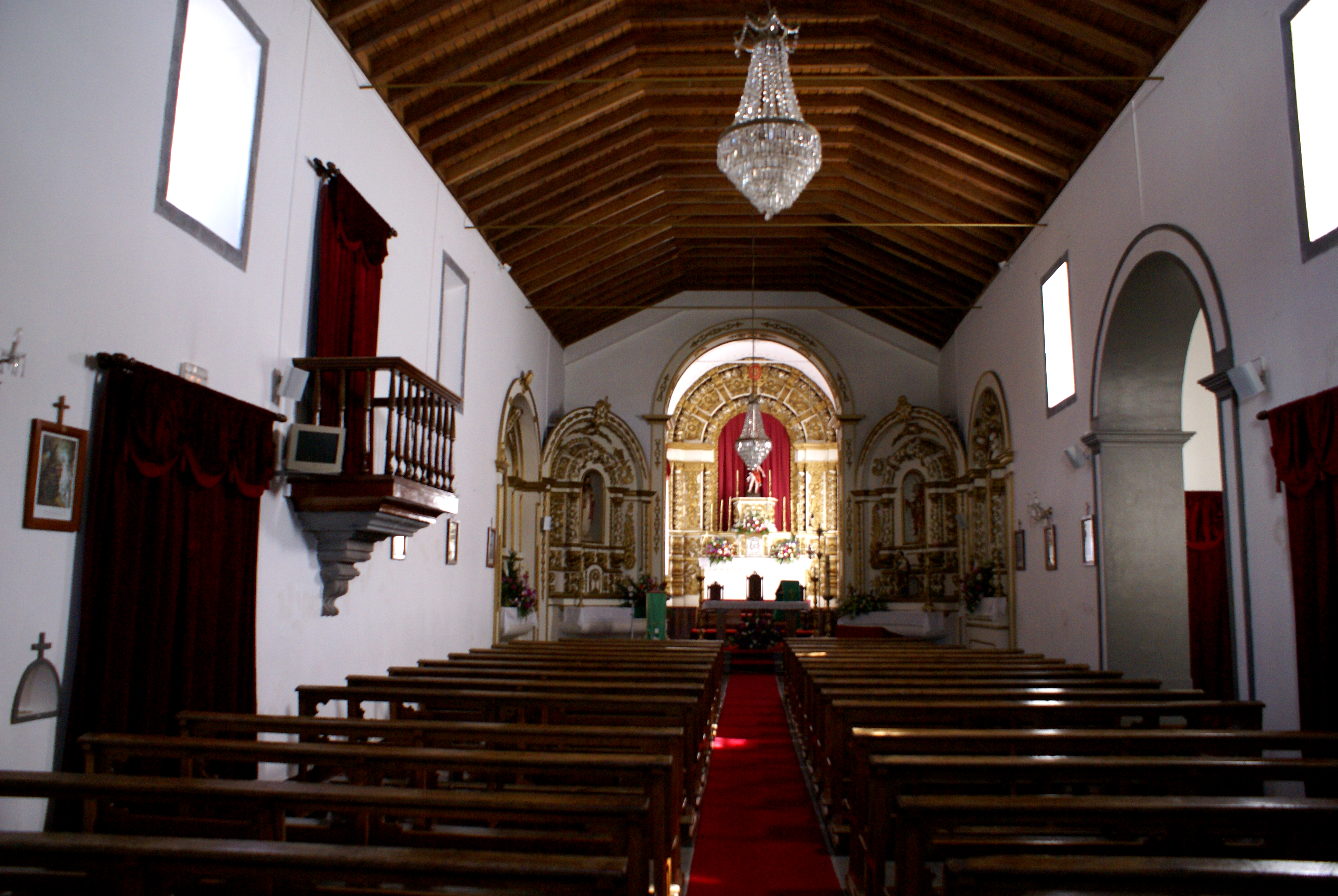 Nave of the Church of São Sebastião, Ginetes, Ponta Delgada, São Miguel (Azores), Portugal